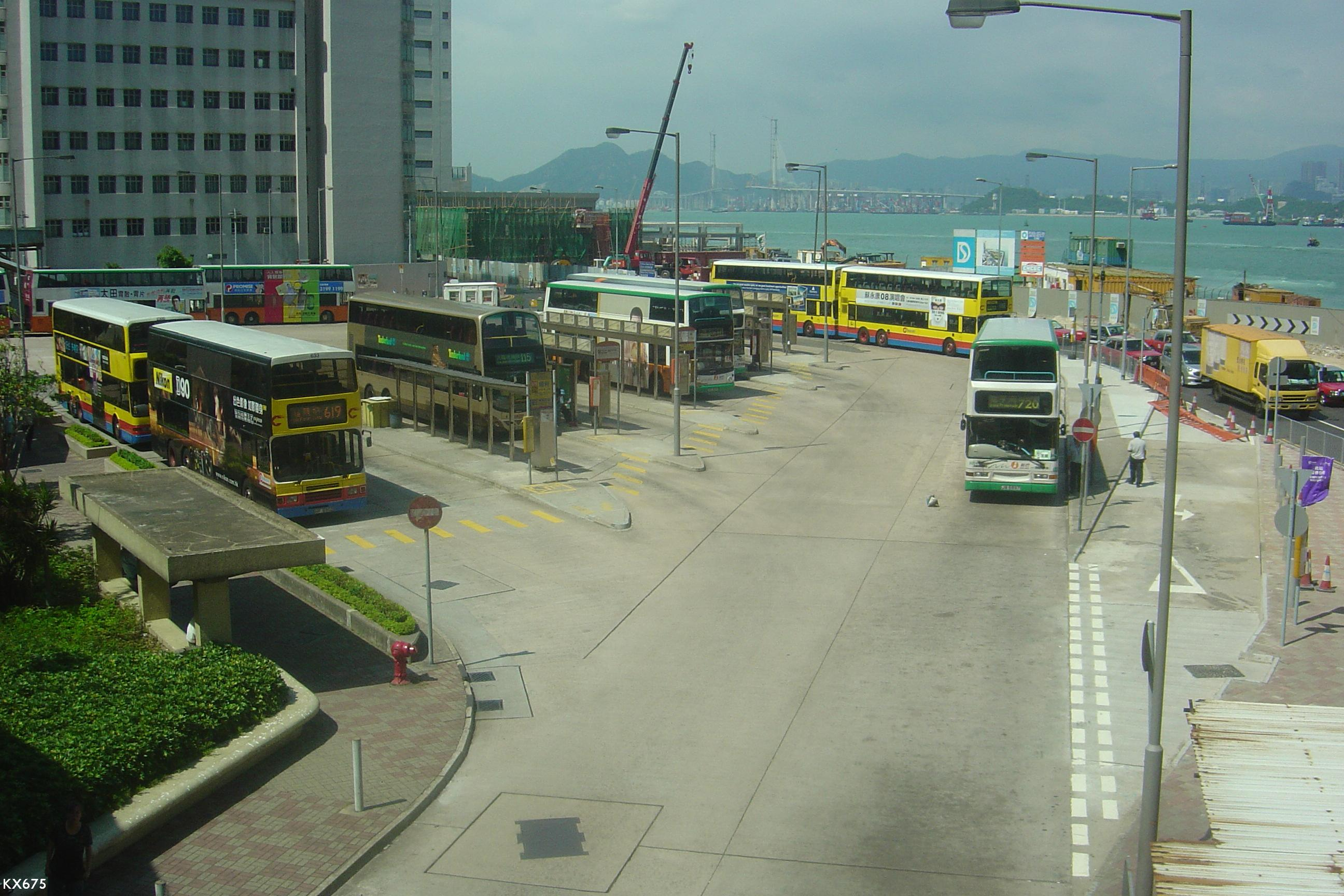 Central (Macau Ferry) Bus Terminus, Hong Kong. 中文（香港）: 香港中環（港澳碼頭）巴士總站。